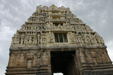 Belur Karnataka